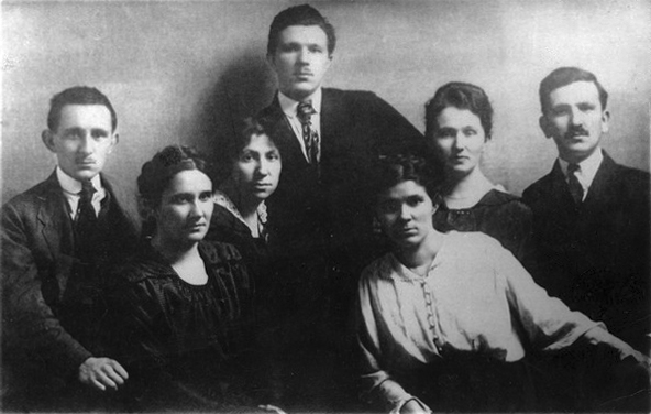 Čubrilović family, including brothers Vaso (first), Branko (middle) and Veljko(?) (last).